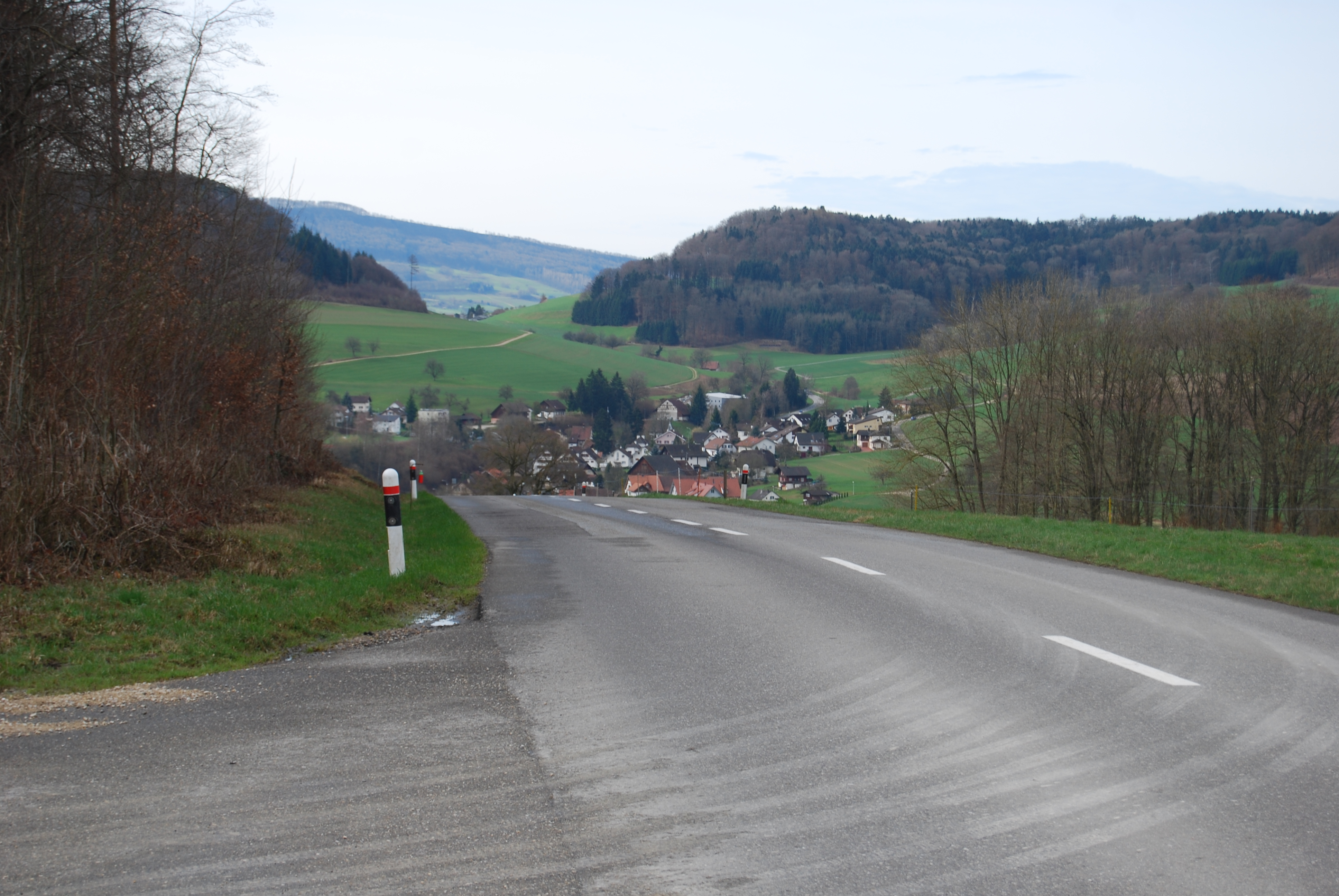 Siglistorf, canton of Aargau, SwitzerlandEsperanto: Siglistorf, Kantono Argovio, Svislando